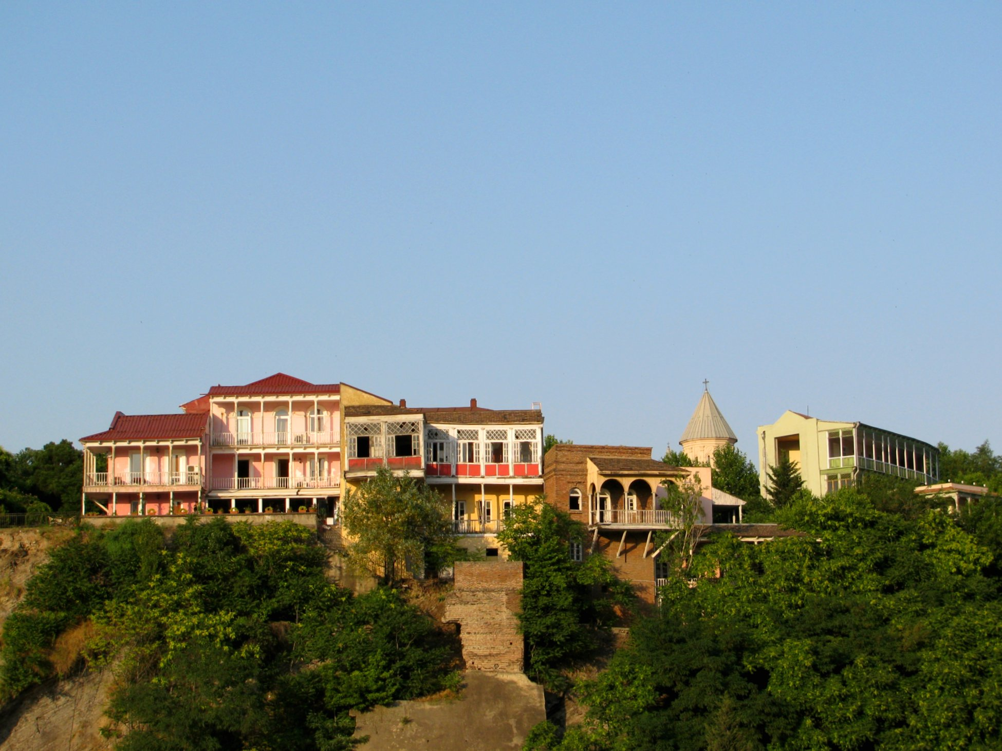 Old houses in Avlabari, Tbilisi